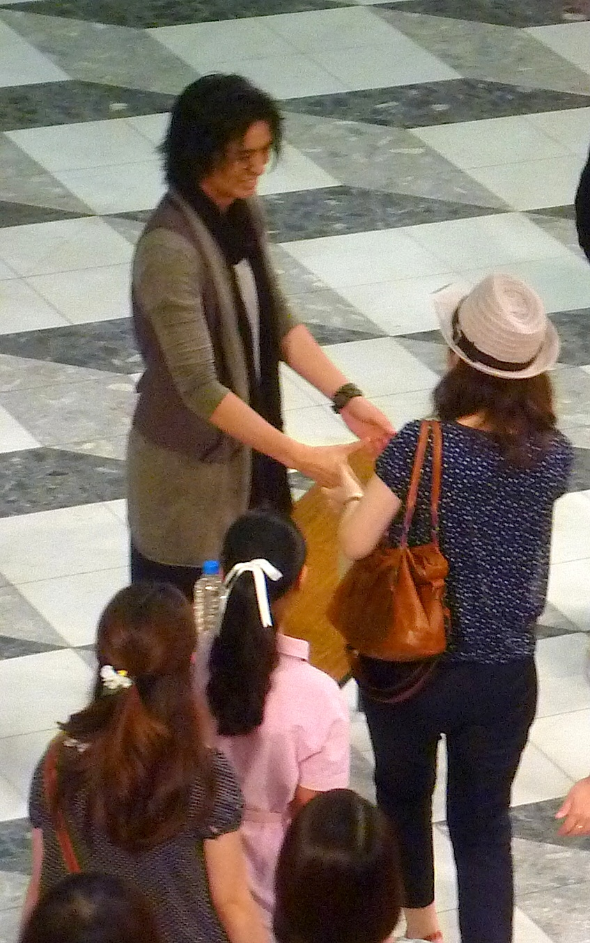 Takumi Saito (斎藤工) is a Japanese actor, model and singer. In this picture, he was greetings fans.